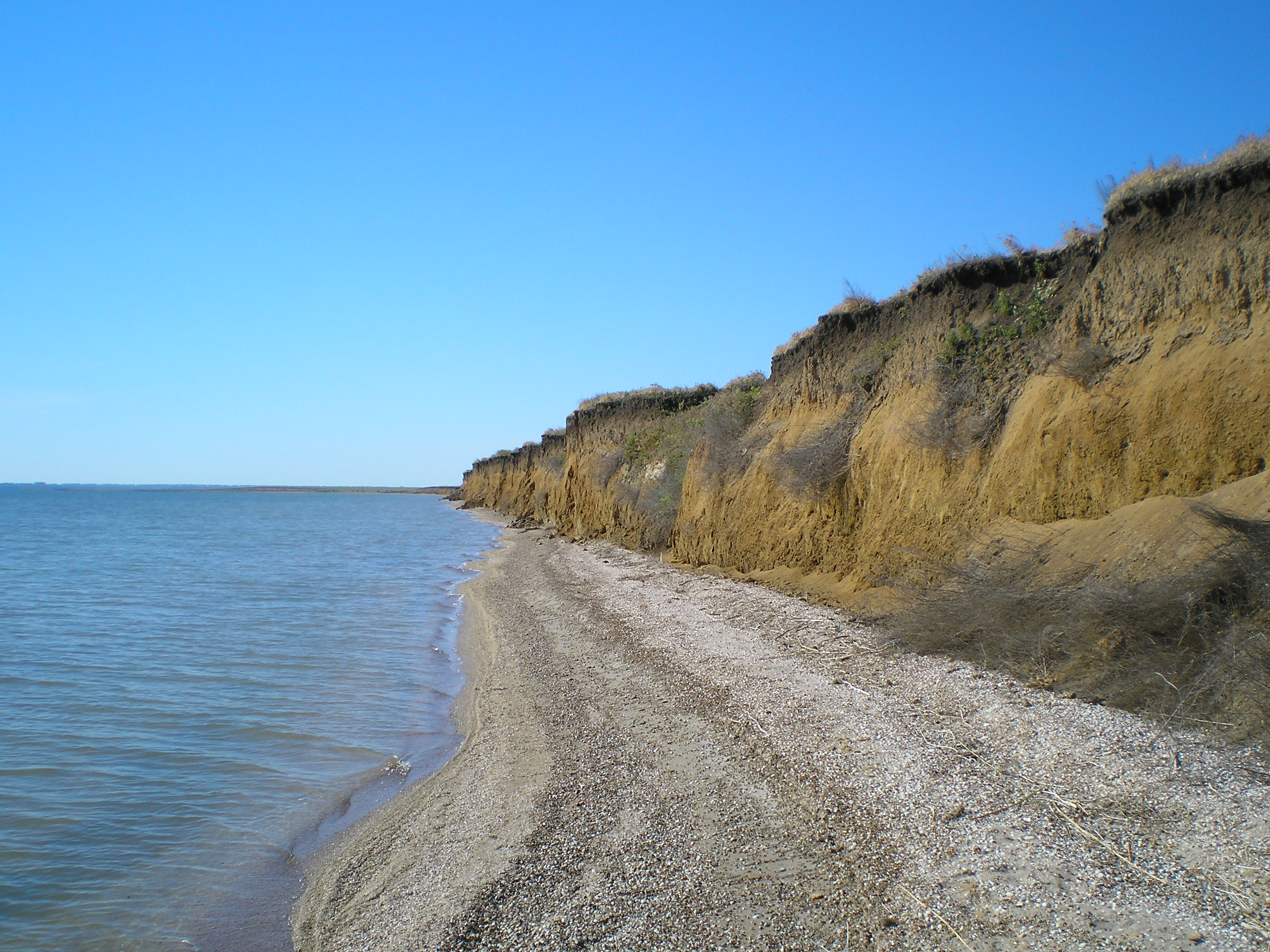 The cliffs of the Alibey Lagoon, south-western Ukraine